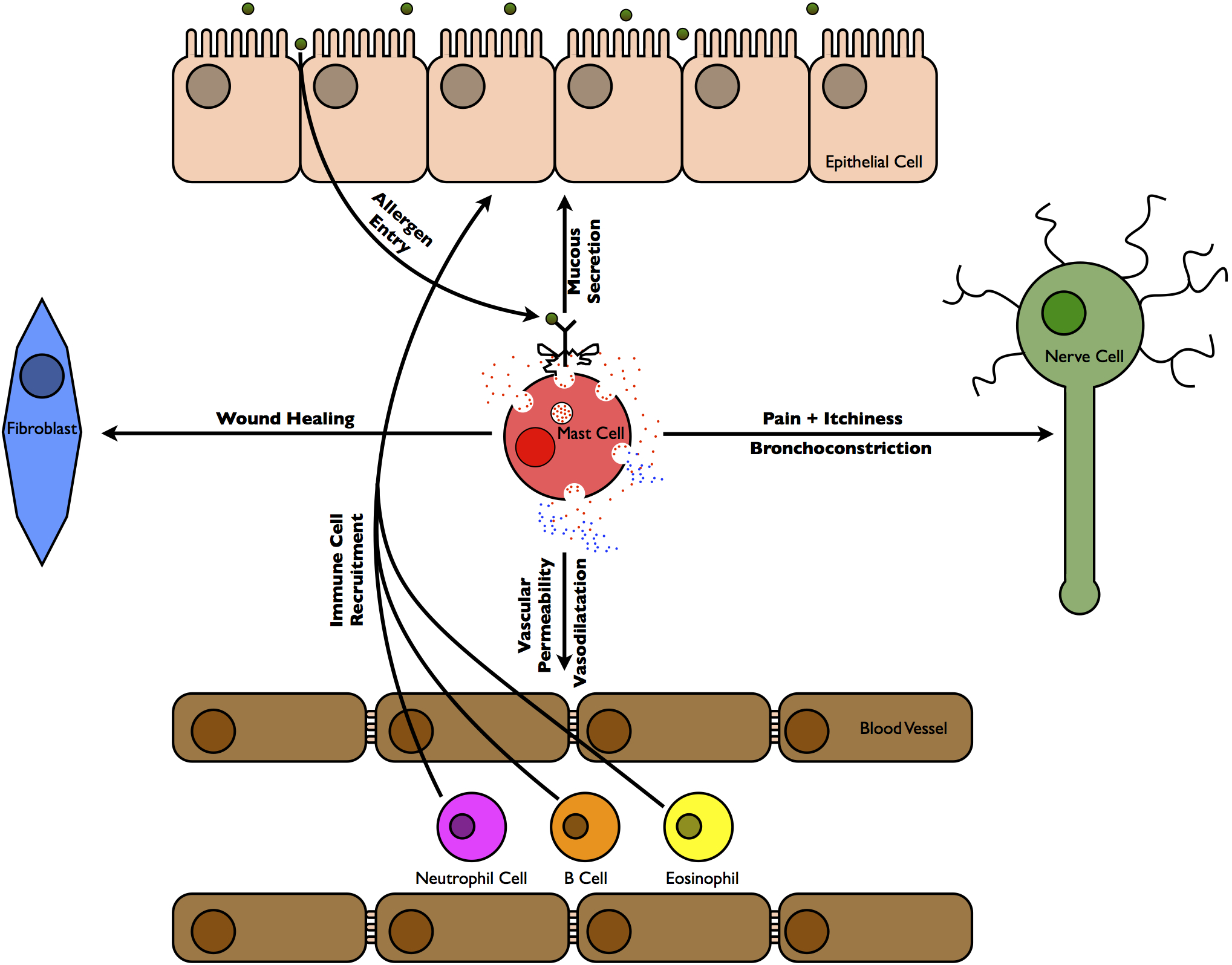 Diagram summarizing some of the tissues that are affected immediately and following an allergic reaction.